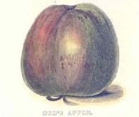 Ord's Apple, English variety named for John Ord, from an 1850 book The Fruitist; A Treatise on Orchard and Garden Fruits by Benjamin Maund.